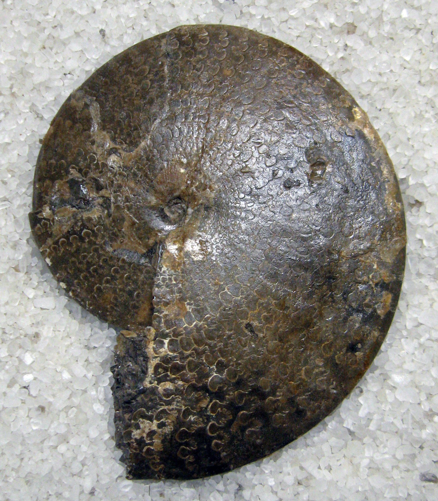 A ~11.5cm in diameter fossil Metengonoceras teigenense from the Cretaceous Mowrey Shale, Petroleum County, Montana, USA. Stonerose Interpretive Center, Gary Eichhorn Ammonite Collection #SR EA 07-04-01.